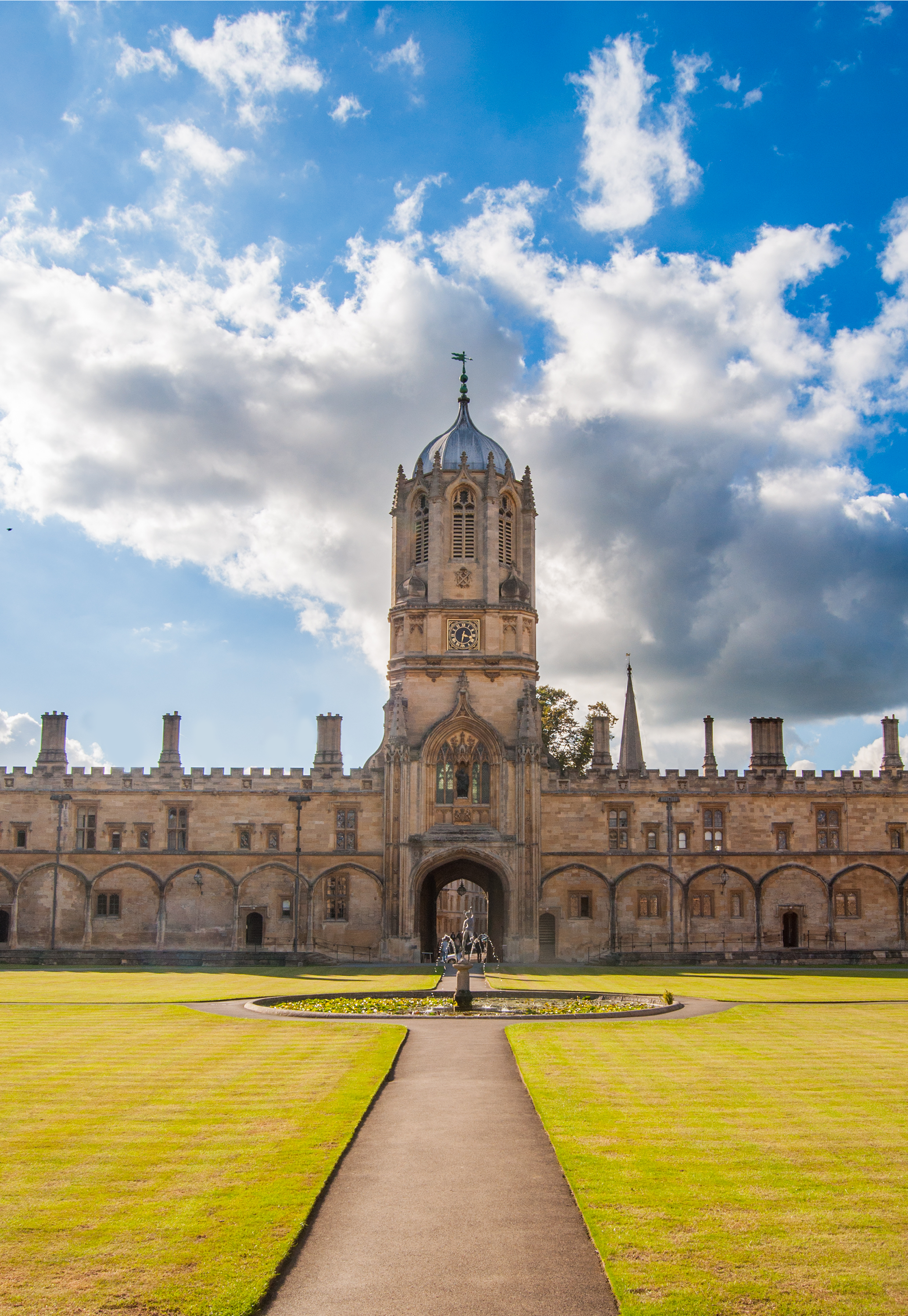 Tom Tower, Christ Church, Oxford. Edited on May 21, 2020 to remove building cranes visible in back of original photo.